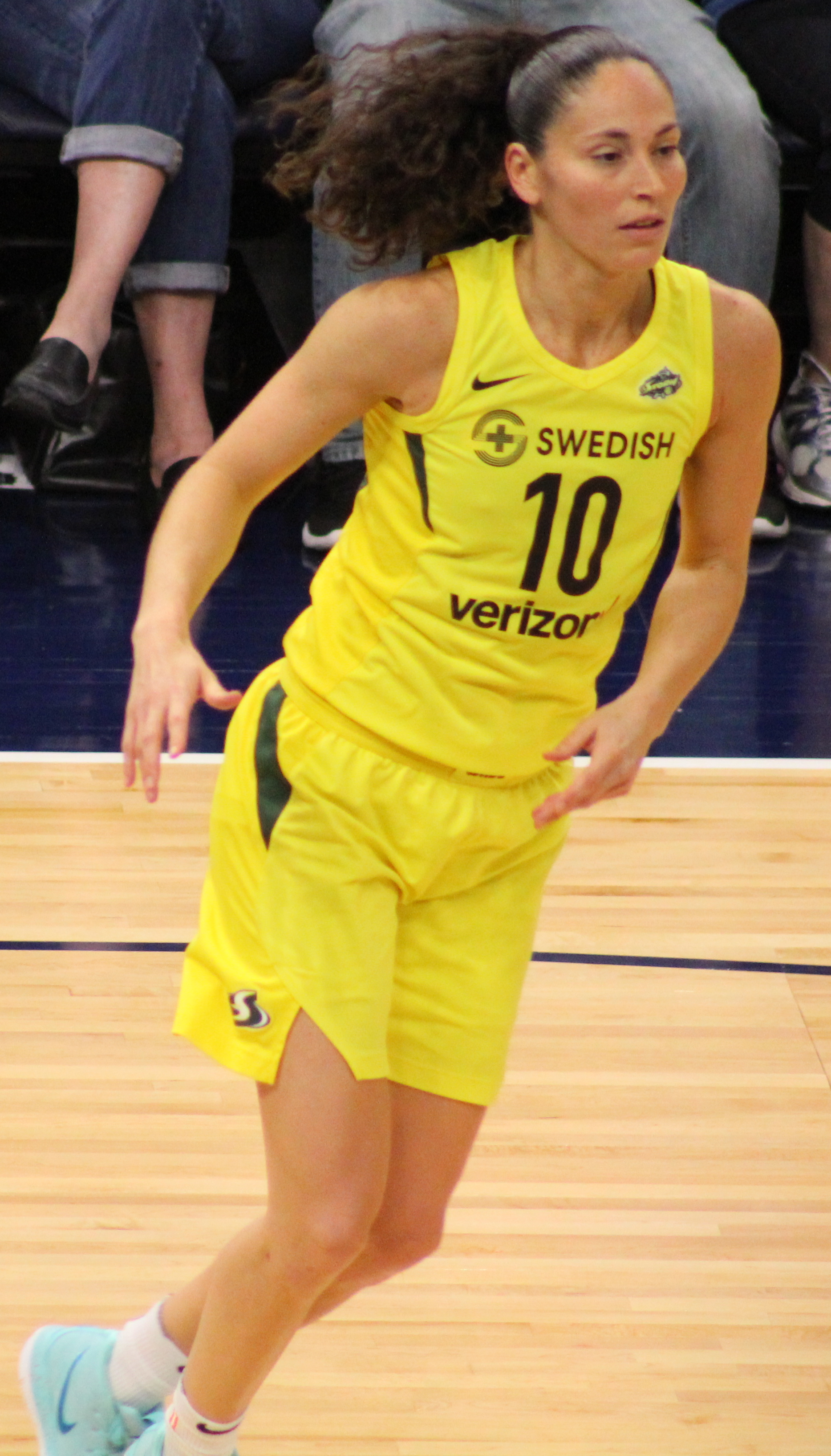 Sue Bird of the Seattle Storm